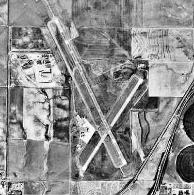 USGS orthophoto of Dodge City Regional Airport, in Kansas, United States. Note: Despite this file's current name, it is not the former Dodge City Army Airfield (see File:Dodge City Army Airfield KS 2006 USGS.jpg).